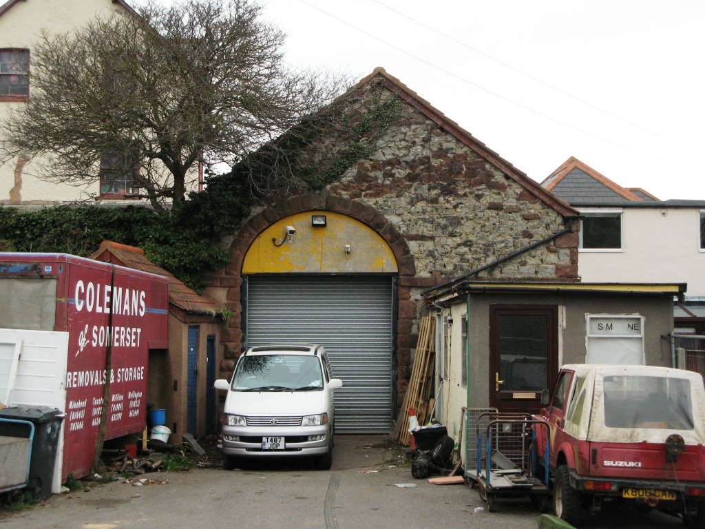 The former West Somerset Mineral Railway goods shed at Watchet. Photographed in 2012 when it was in use as a motor garage.